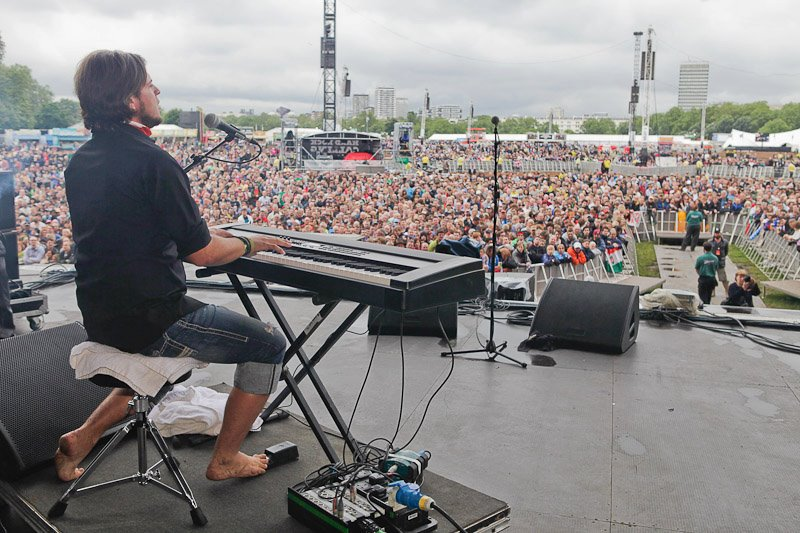 Dan Monea plays in historic Hyde Park for the Hard Rock Calling festival in London, England